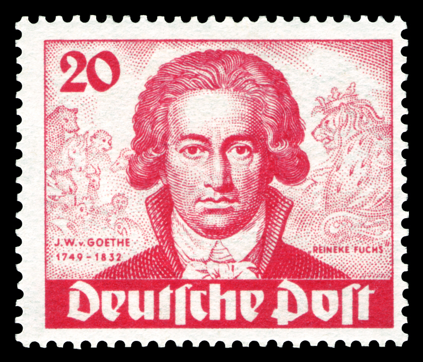 200. Geburtstag von Johann Wolfgang von Goethe (1749–1832)